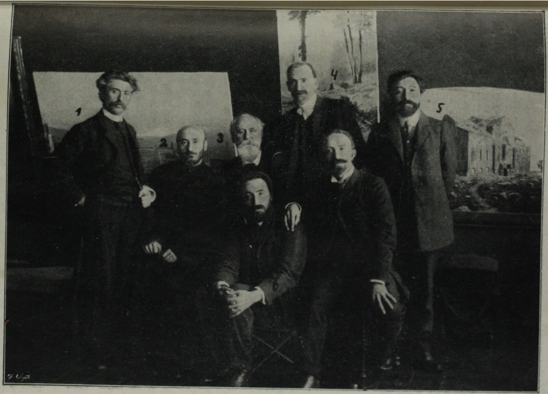 Armenian intellectuals as marked: (1) Gevorg Bashinjaghian, (2) Komitas Vardapet, (3) Ghazaros Aghayan, (4) Hovhannes Tumanyan, (5) Avedik Isahakyan, (6) Vrtanes Papazian, (7) Arshag Chobanian